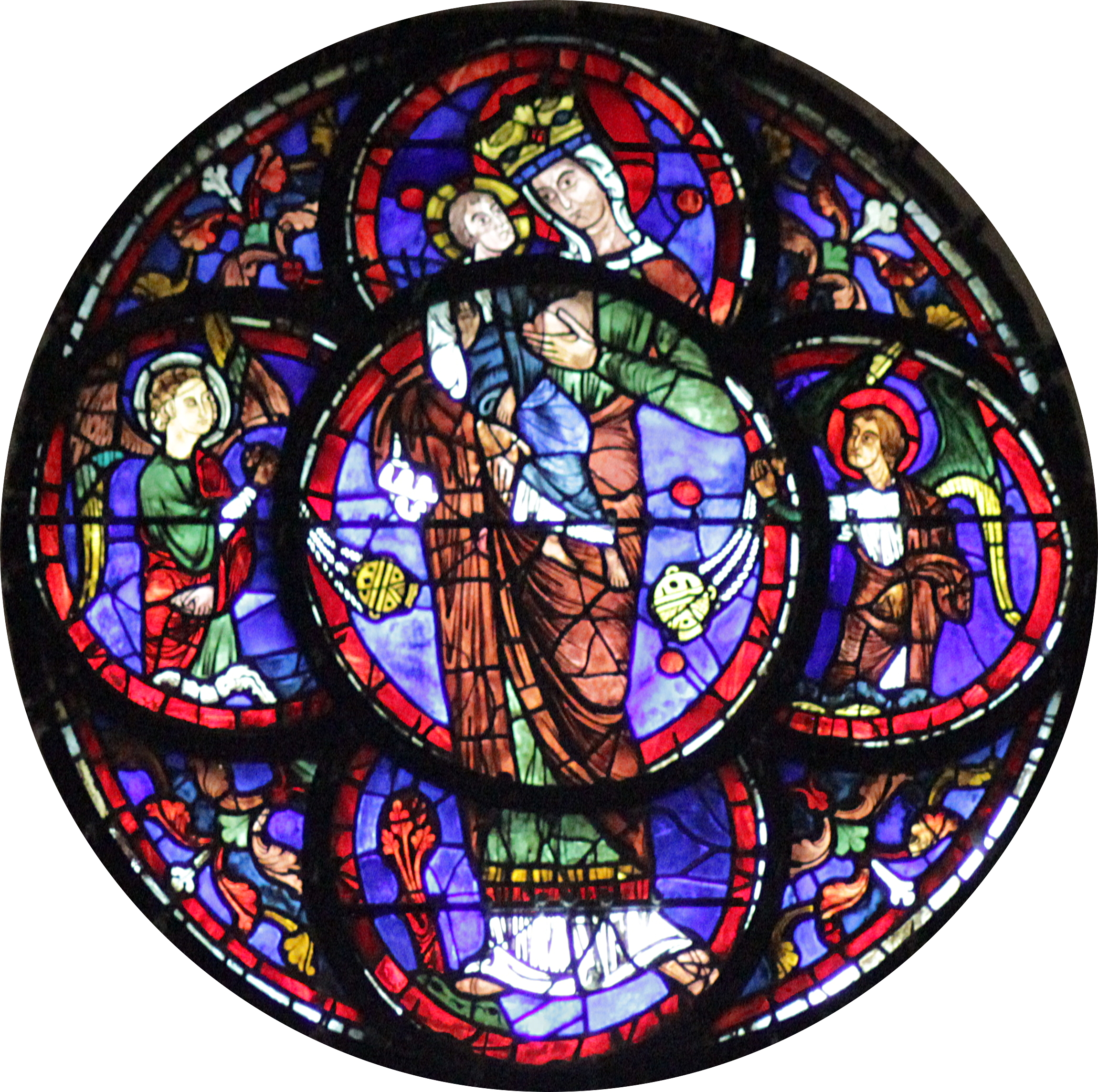 Chartres Cathedral - Virgin Mary milking Jesus.